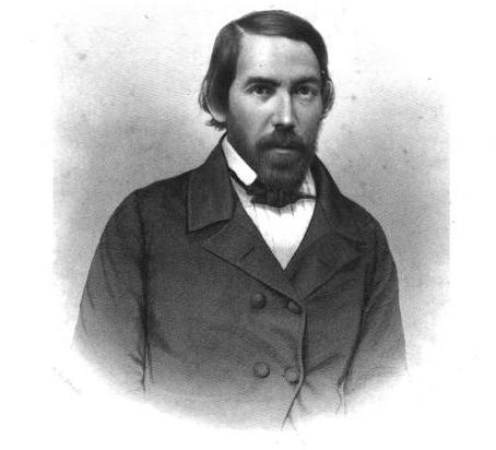 Low resolution scan of José Jacinto Milanés, as it appeared in the book published by his brother Federico.